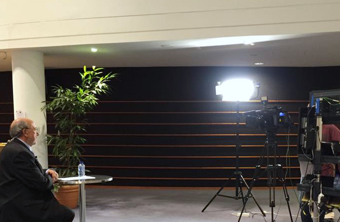 Louis Michel at the European Parliament during an interview for TV5 Monde on April 25th, 2015.